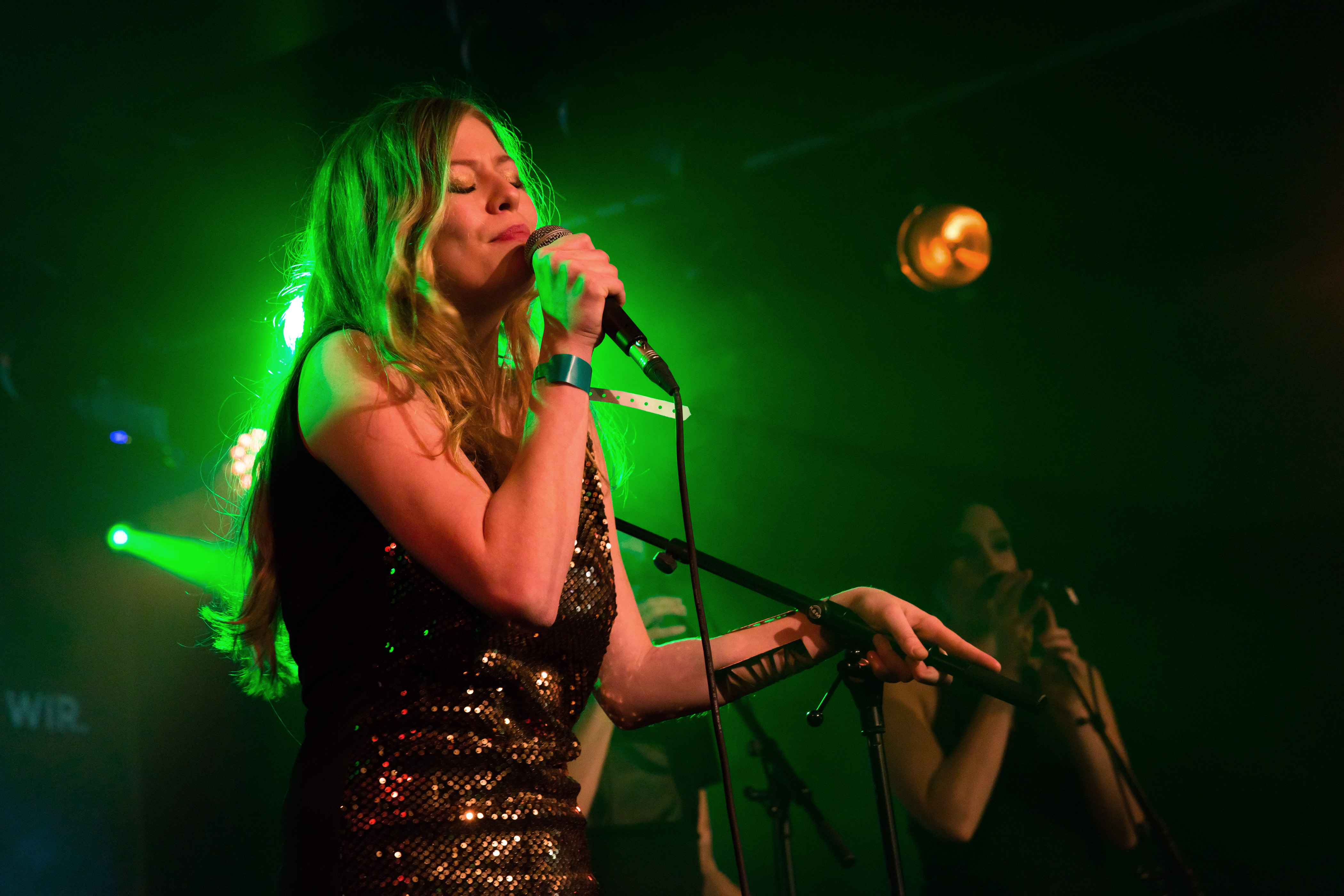 Zoe at the concert of the Austrian candidates for participating at the Eurovision Song Contest 2015; Chaya Fuera, Vienna,Austria.